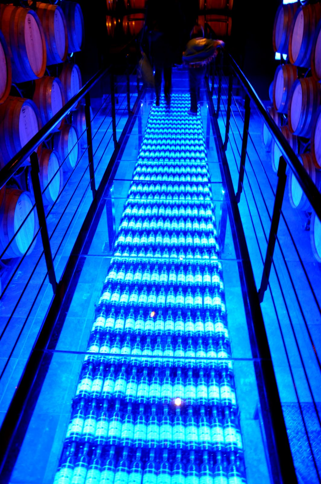 the inside of the wine manufacturing factory does not have to be boring... ("Katogi Averoff" - Metsovo, Greece)